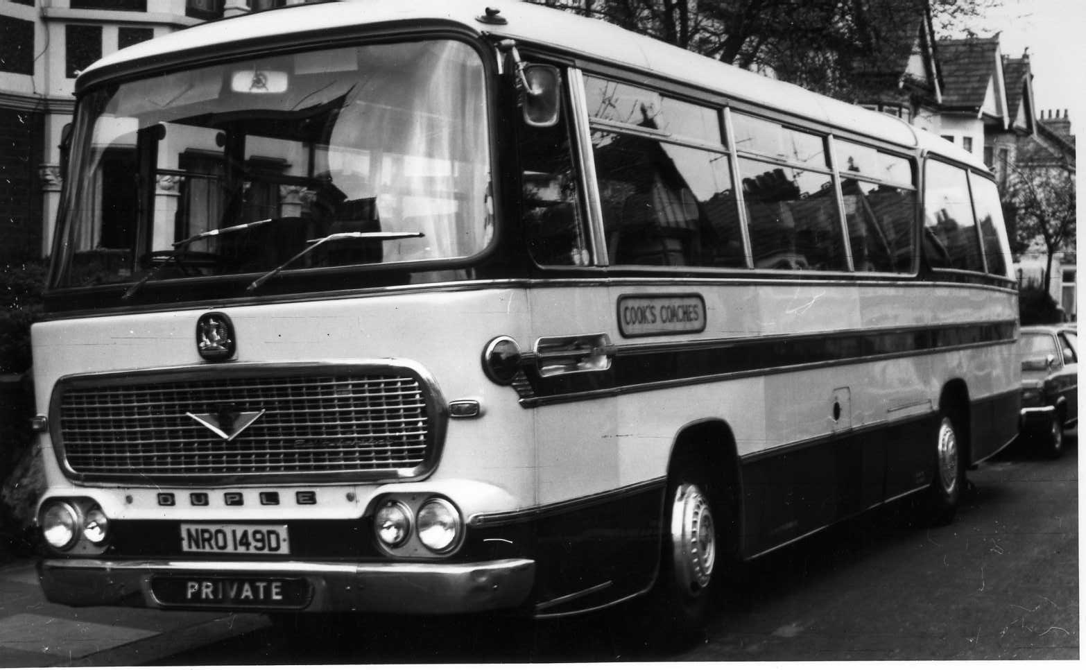 Circa 1975. Somewhere in the edwardian avenues of Westcliff I found this smart VAM5 with Duple Bella Venture bodywork .